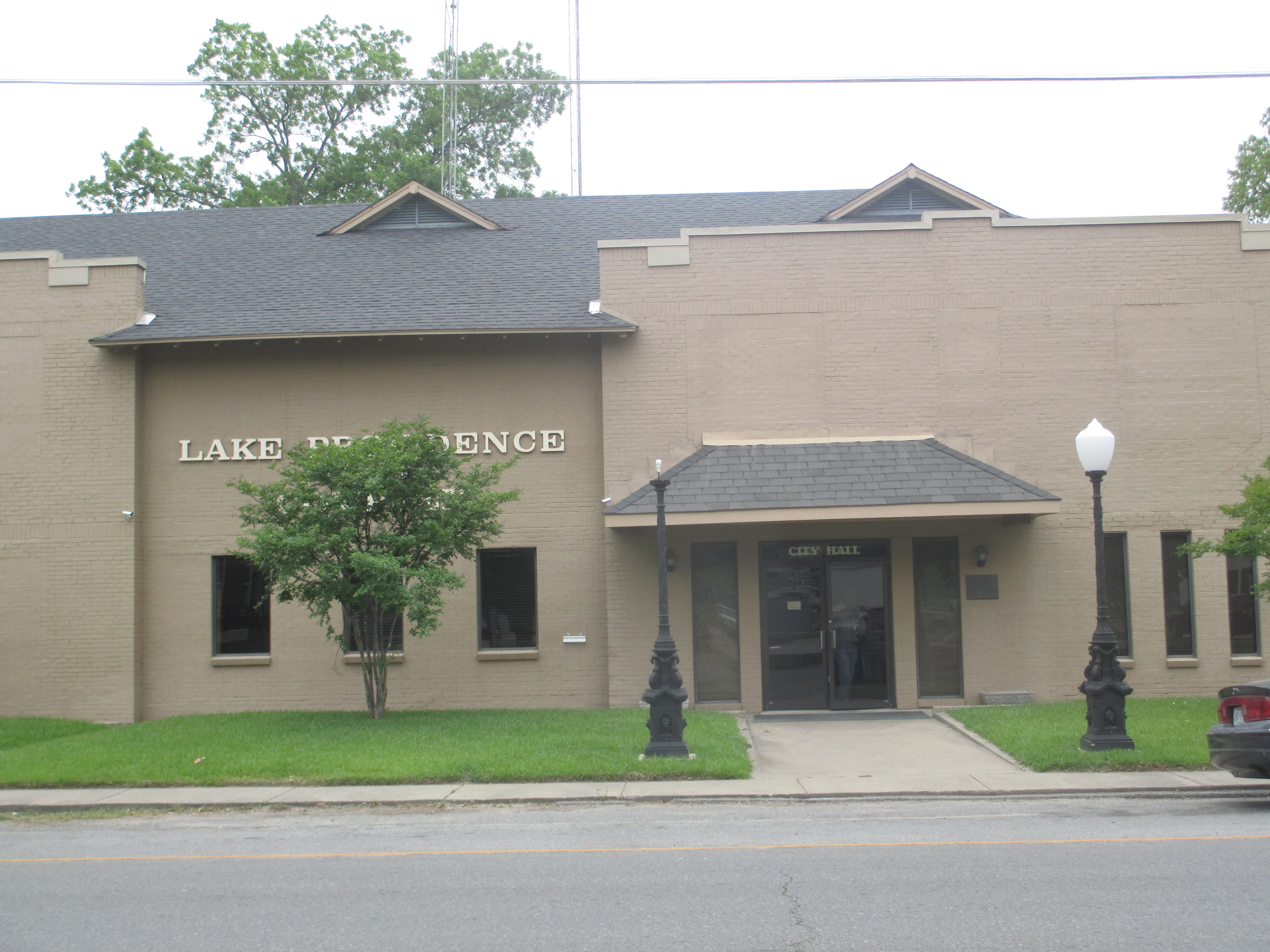 I took photo of Lake Providence, LA, City Hall with Canon camera.